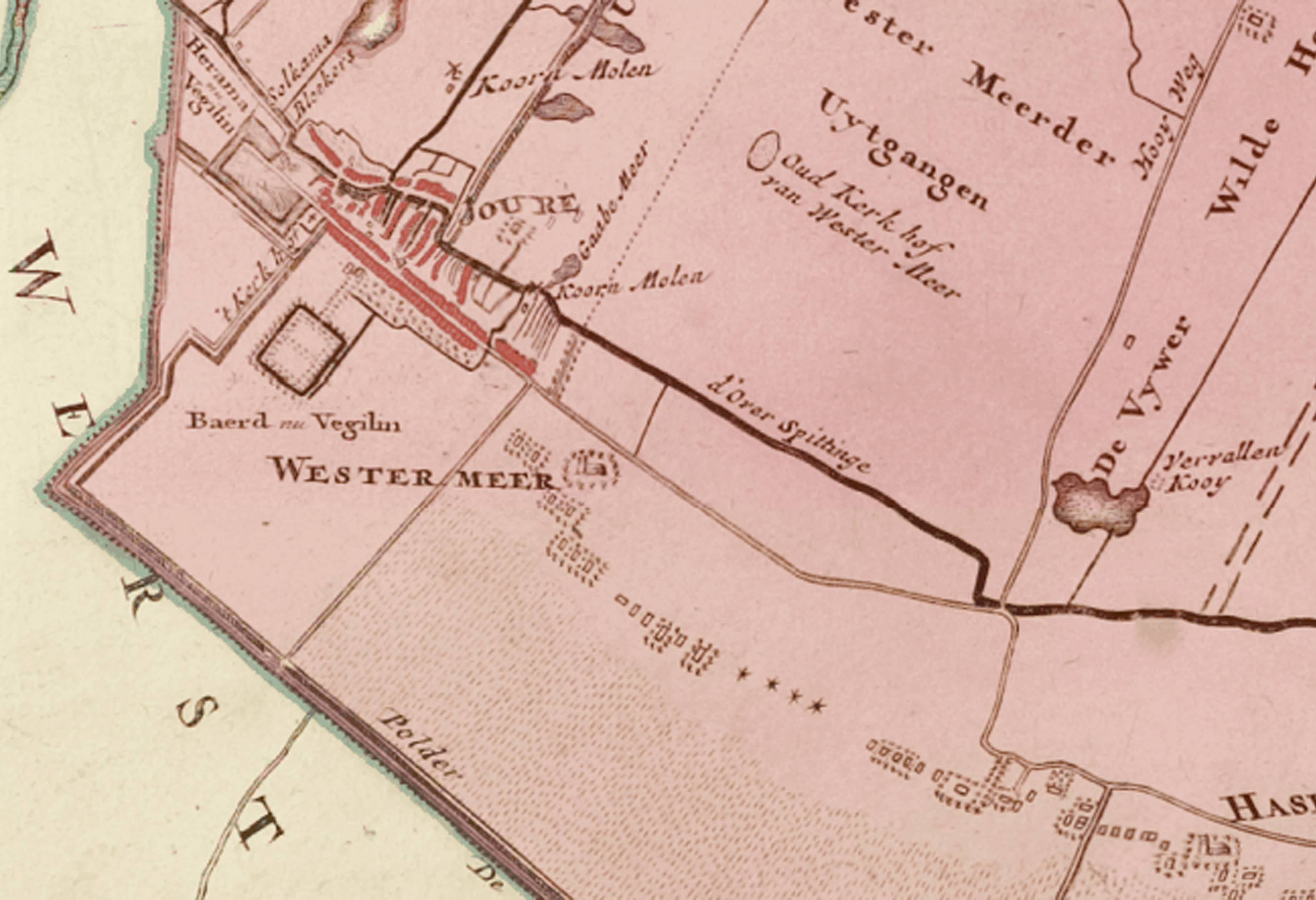 Part of a map of Haskerland from 1718, with prominent Joure and Westermeer